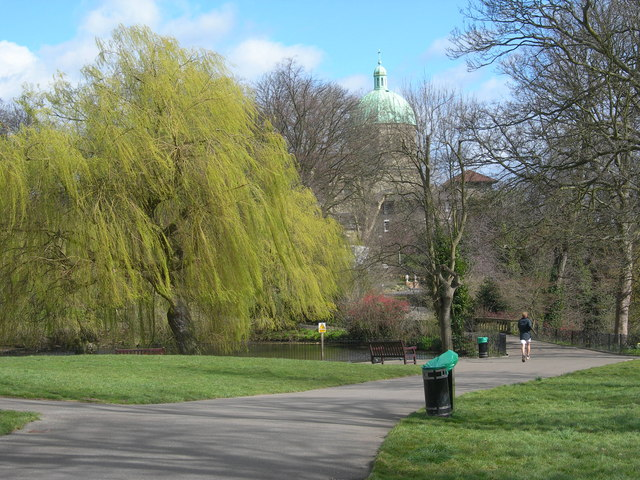 Waterlow Park, Highgate Showing the bridge between the Middle Pond and the Lower Pond.